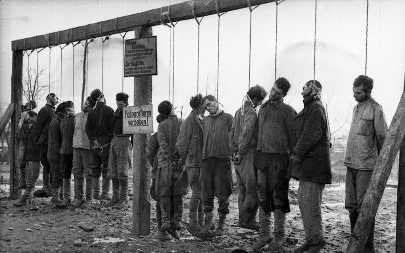 Information added by Wikimedia users.The sign in the middle bears the words "Fotografieren verboten!", which is German for "Photography is forbidden!".